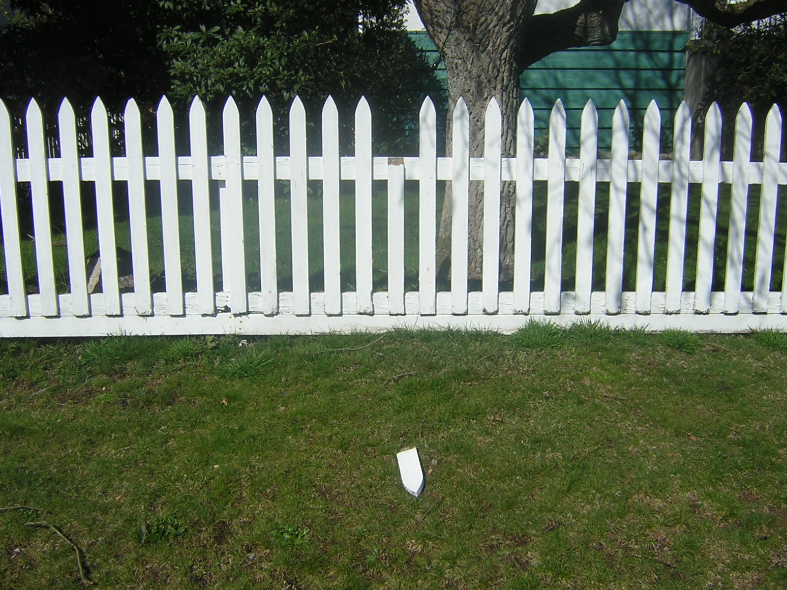 A row of white wooden fence. Taken in Vancouver, Canada.